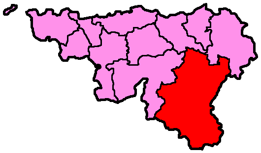 Location of the constituency of Arlon-Marche-en-Famenne-Bastogne-Neufchâteau-Virton in Wallonia